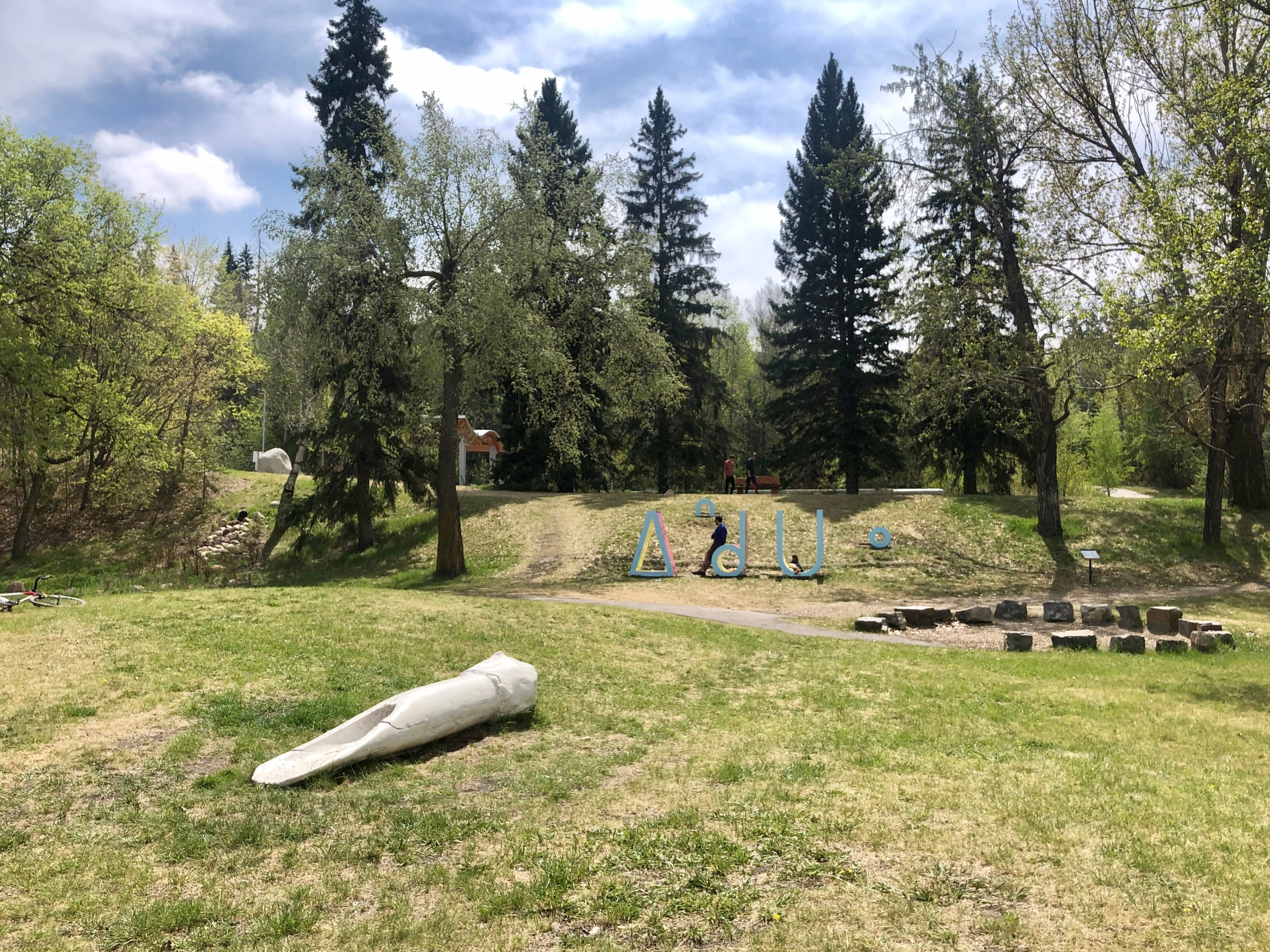 Indigenous Art Park, ᐄᓃᐤ (ÎNÎW) River Lot 11 on a spring day with mikikwan by Duane Linklater in the foreground